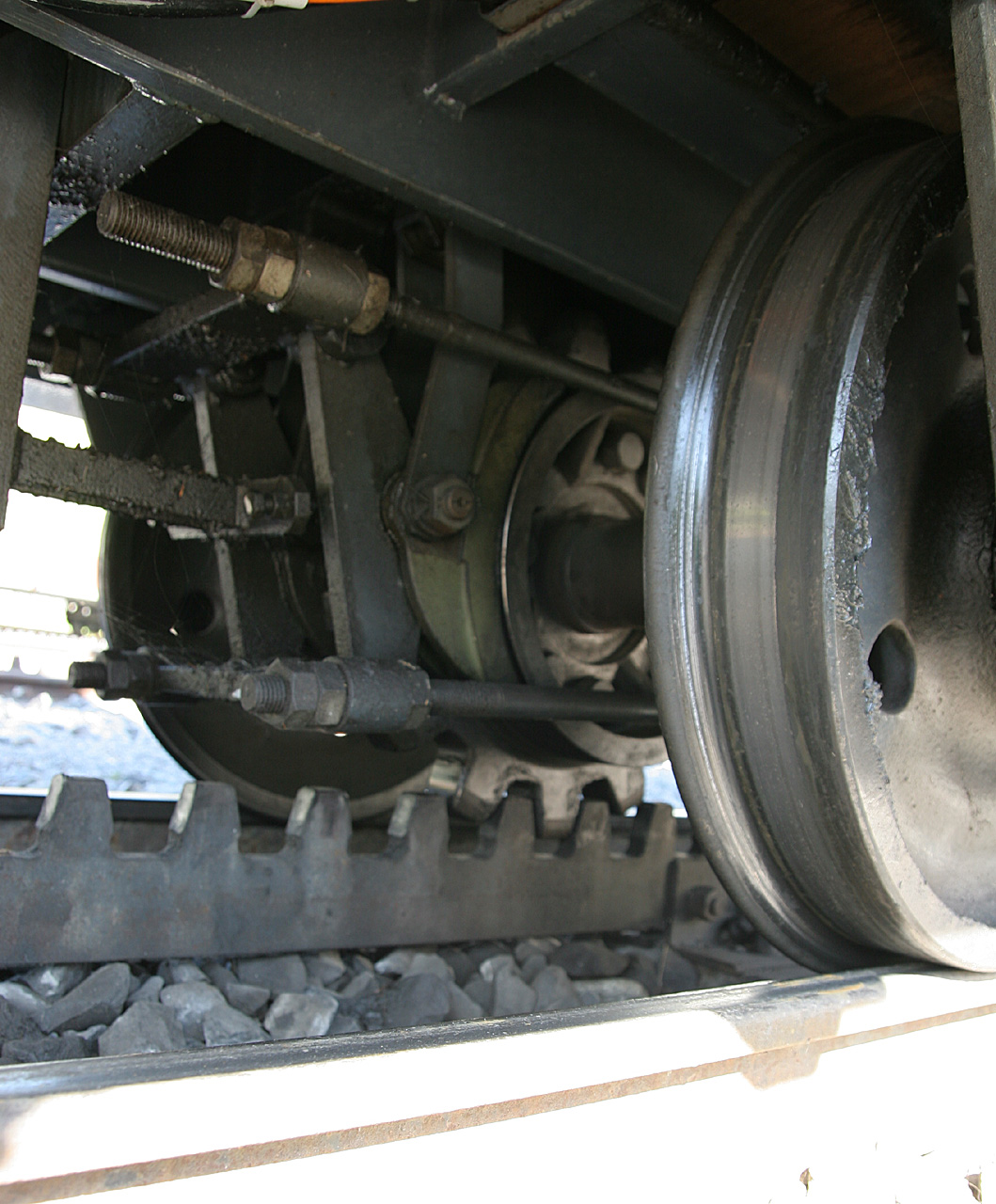 Rack track of Wengernalpbahn (system Riggenbach)